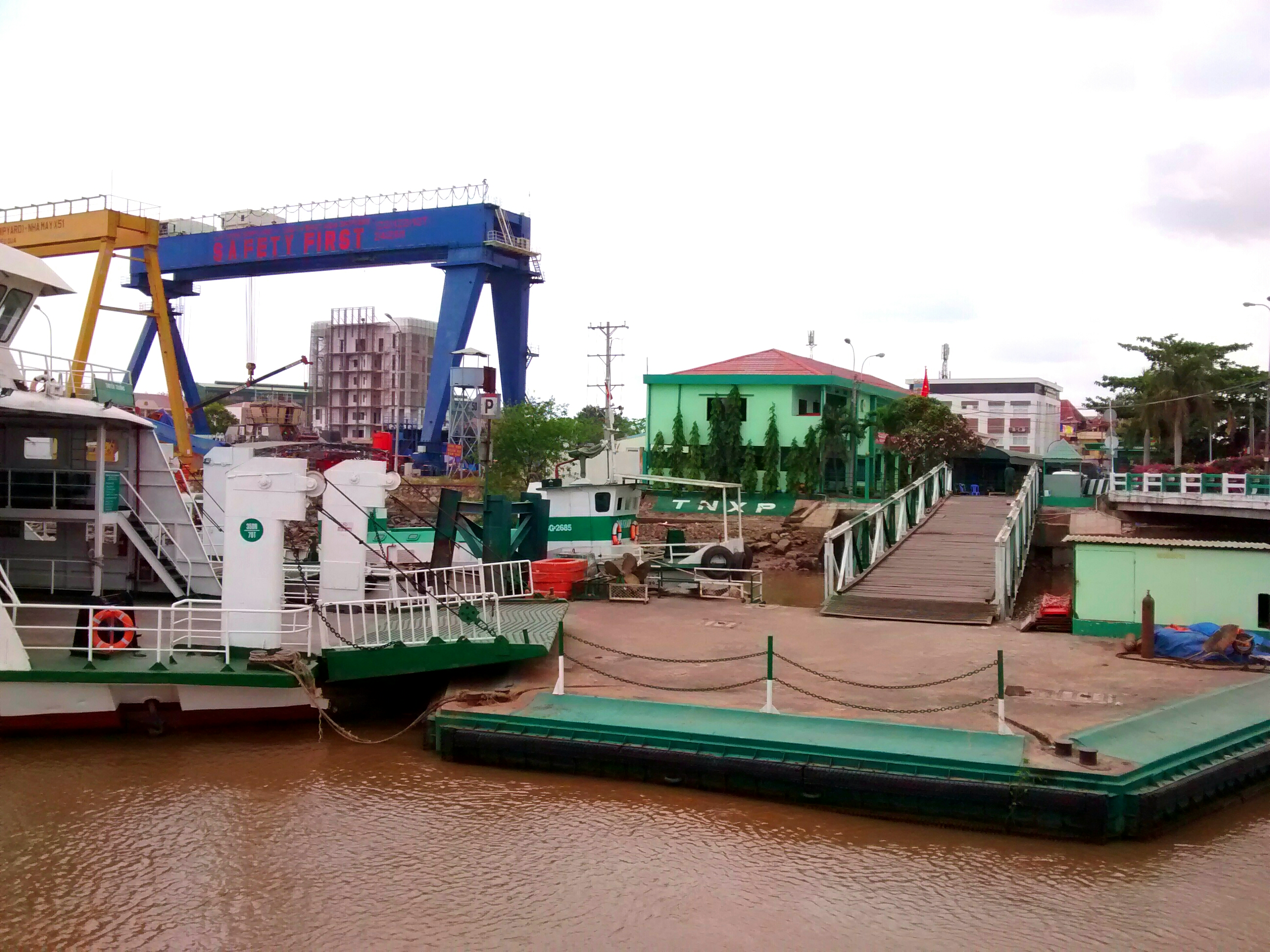 Binh Khanh FerryTiếng Việt: Bến phà Bình Khánh. Ảnh chụp bờ Nhà Bè.